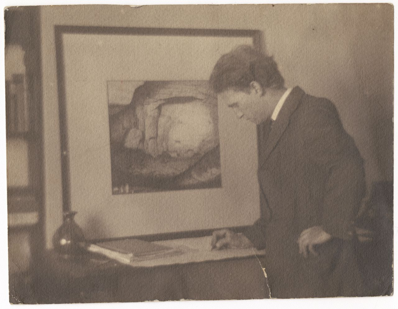 Artist Lloyd Rees sketching